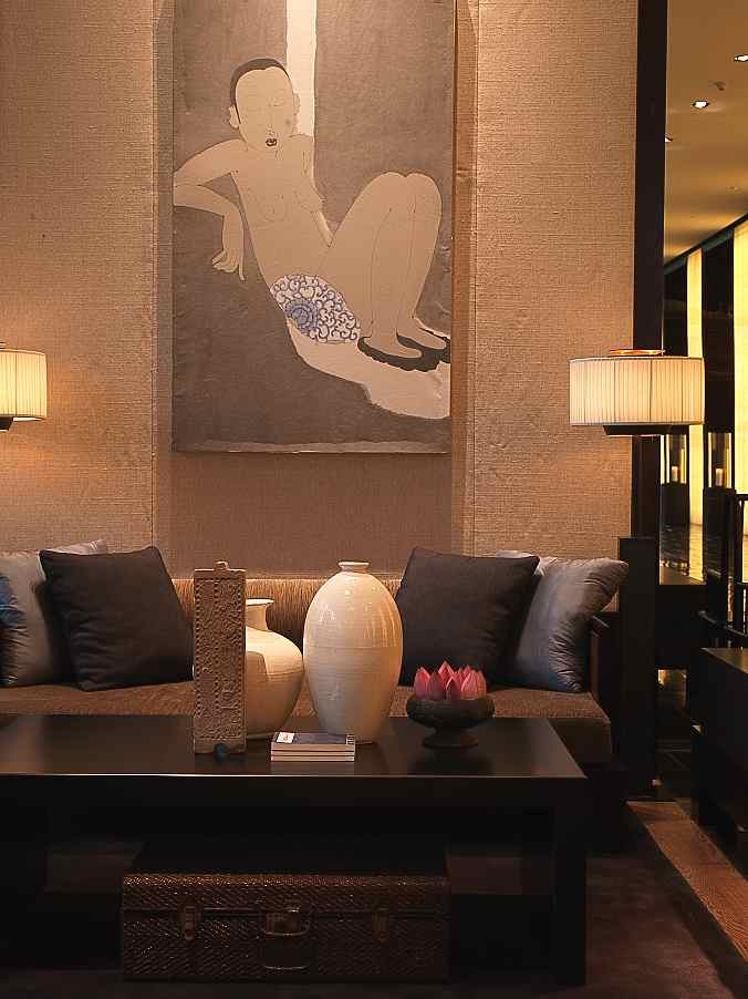 Li Jing Bin's Painting in The PuLi Hotel and Spa